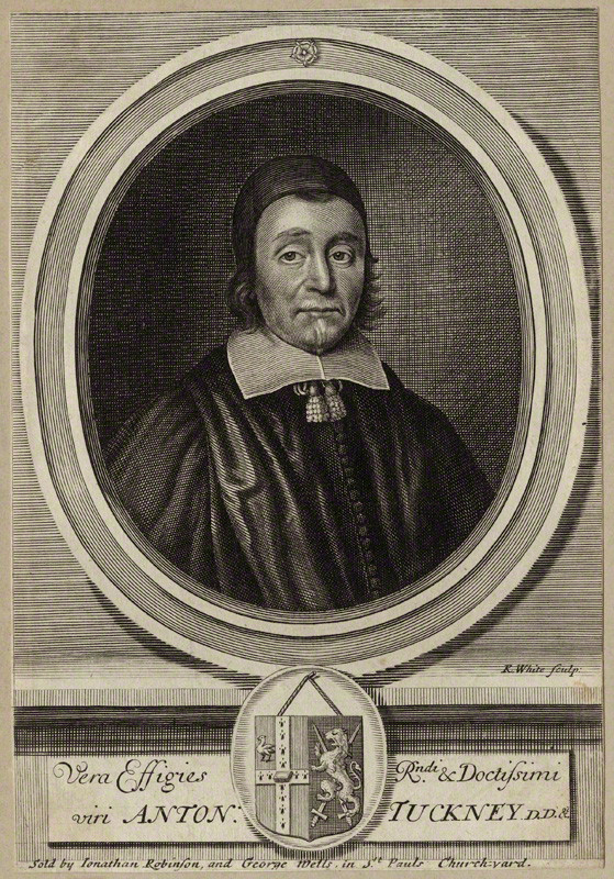 Portrait of Anthony Tuckney (1599-1670)